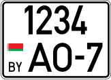 Vehicle licence plate from Belarus Type 4